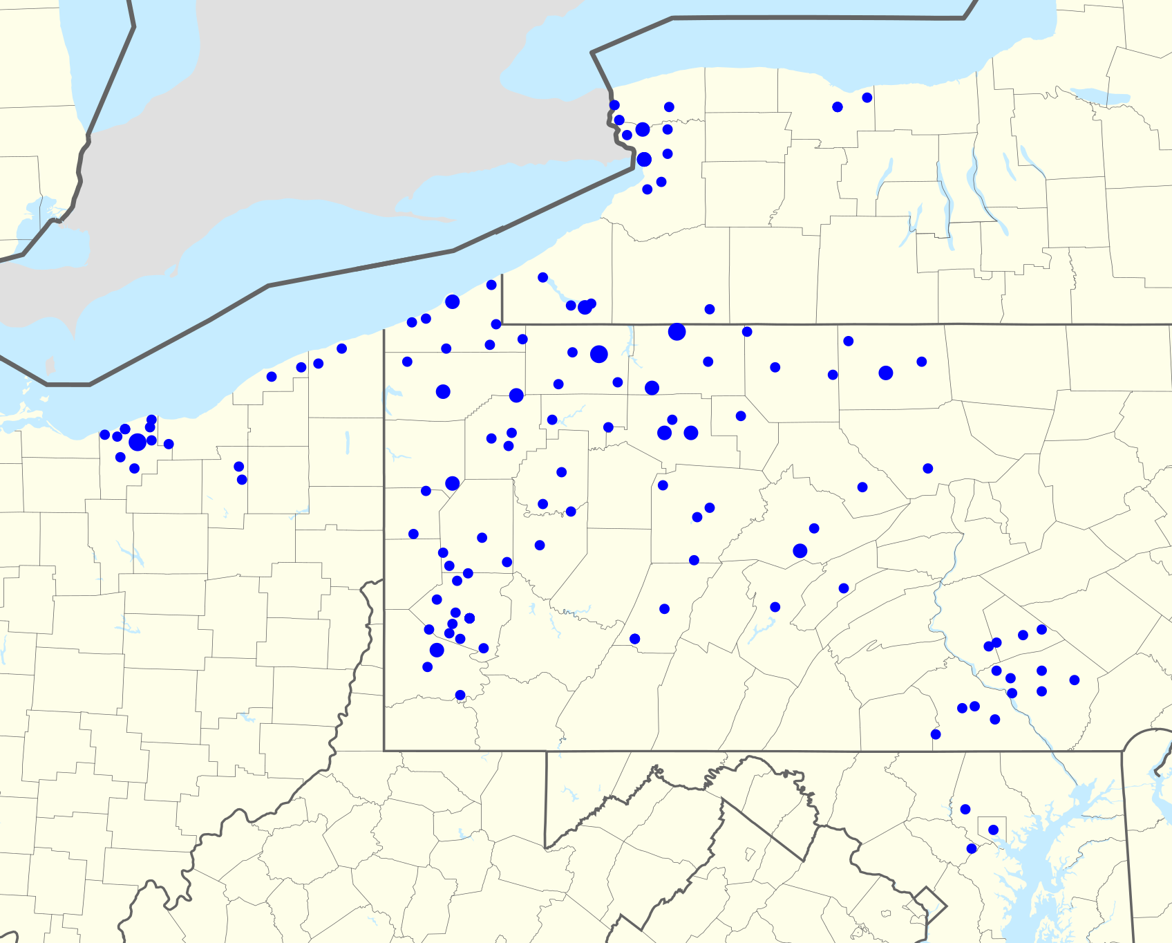 Footprint of Northwest Savings branches within the United States prior to merger with NexTier. Zip codes with more than one branch have progressively larger points.